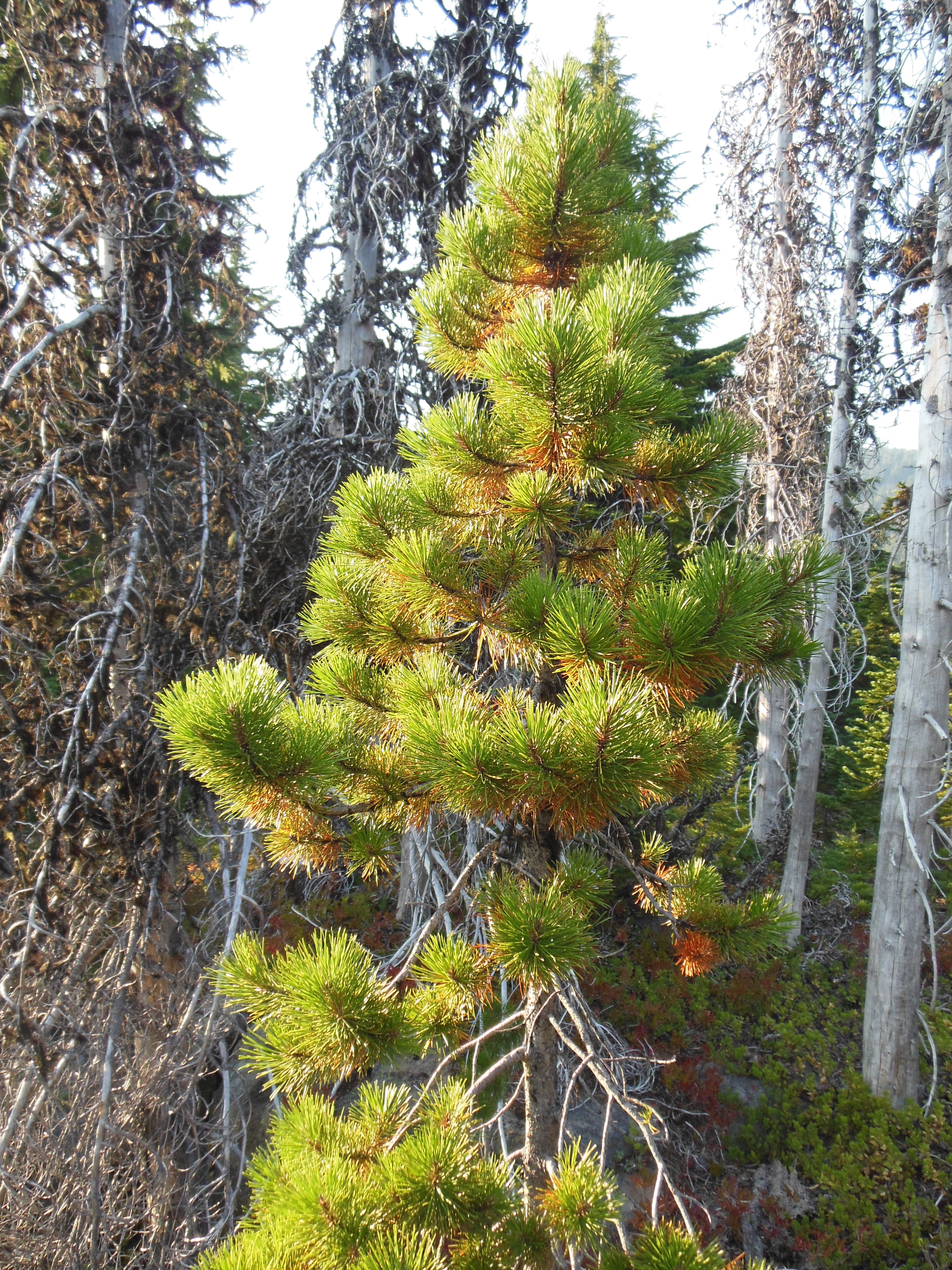 Lodgepole pine (Pinus contorta subsp. murrayana) south of Three Fingered Jack in the Mount Jefferson Wilderness, Deschutes National Forest, Jefferson County, Oregon, USA